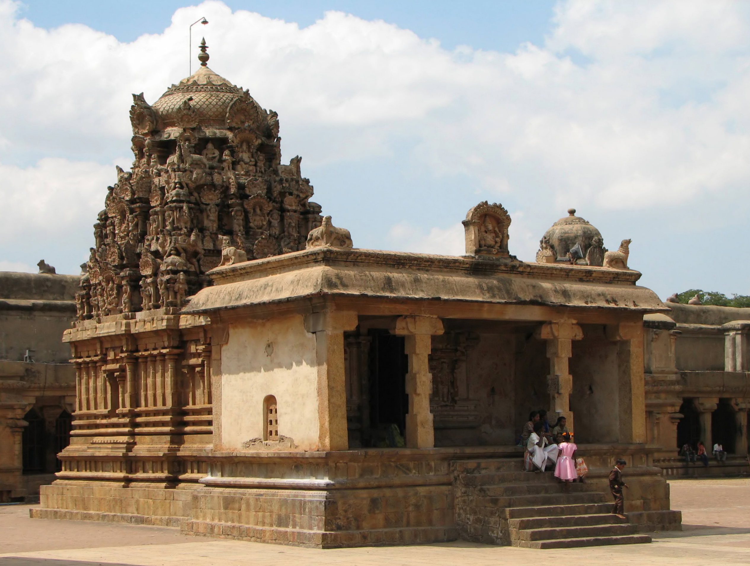 Shrine of Ganapathy in Brihadeeswarar Temple complex, Thanjavur, India